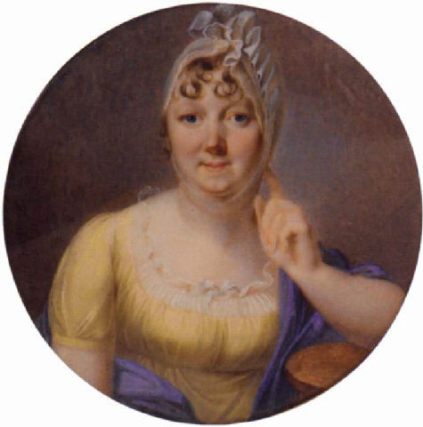 Künstler Carl Friedrich Demiani Titel Rundes Brustbild einer Frau in dekolletiertem Kleid und mit Spitzenhaube Medium Miniature mixed media on ivory Größe 3,7 x 0 in. / 9,5 x 0 cm. Jahr 1806